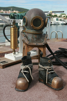 Siebe inspired Soviet made 12 bolt diving helmet